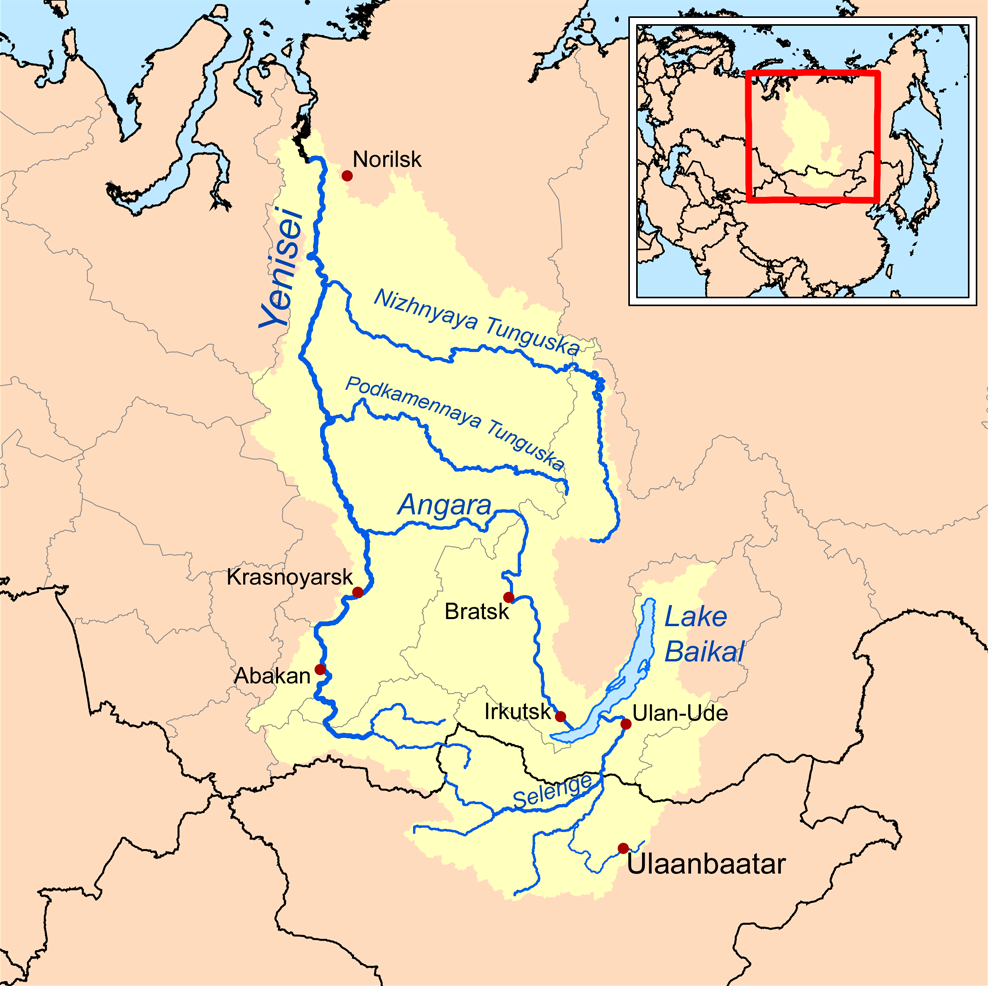 This is a map of the Yenisei River drainage basin, with national borders added.